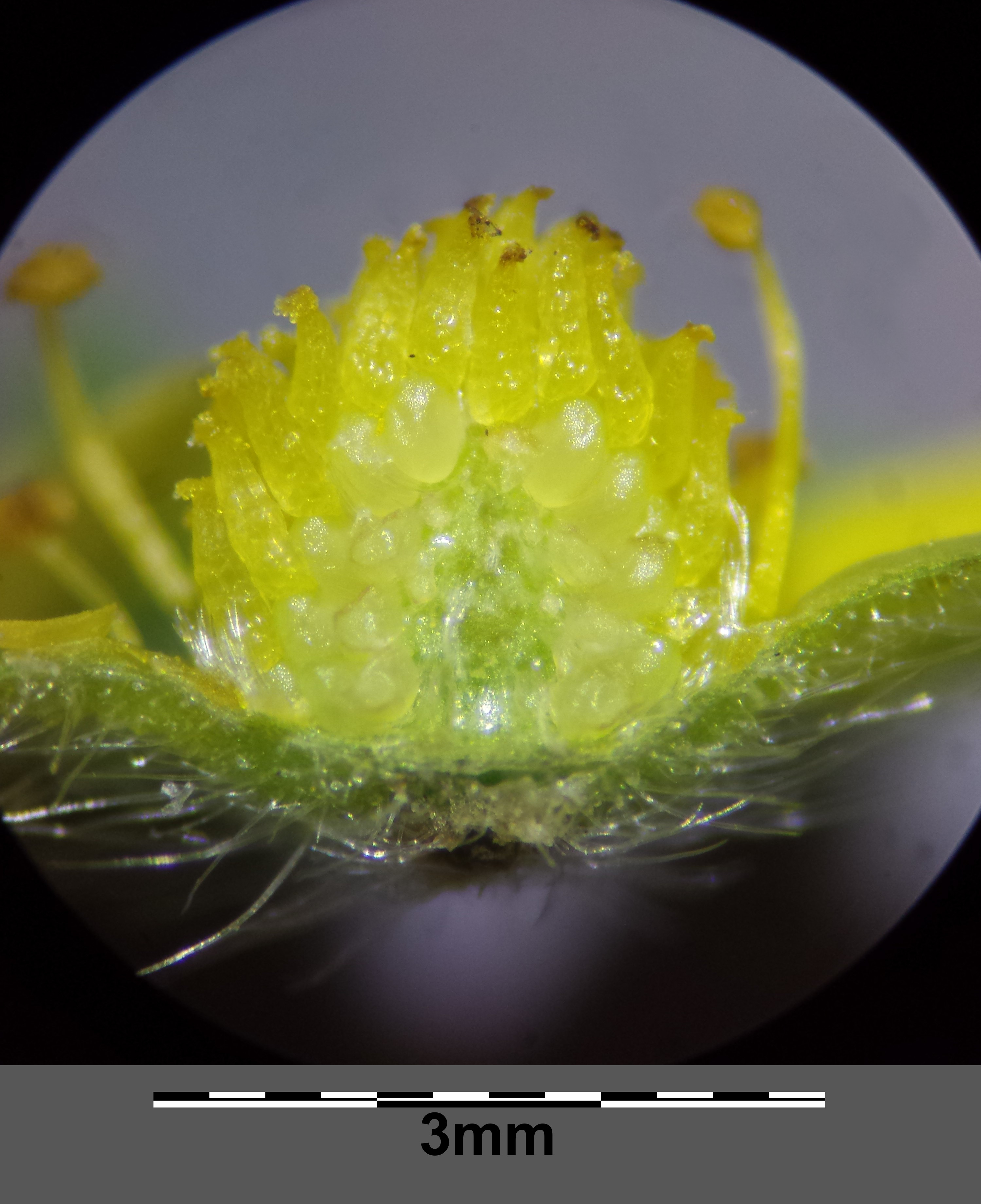 Fruit, cut-through Taxonym: Potentilla norvegica ss Fischer et al. EfÖLS 2008 ISBN 978-3-85474-187-9 Location: Žárský rybník, Jihočeský kraj, Czech Republic - ca. 500 m a.s.l. Habitat: shore of a pond